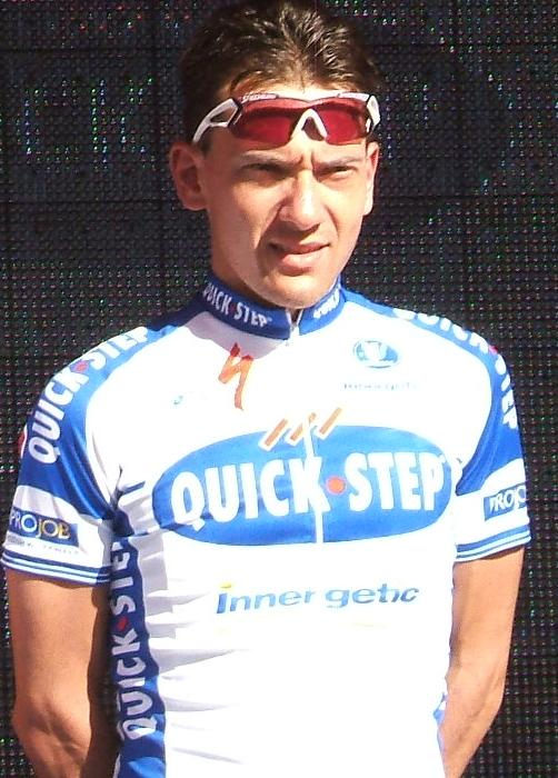 Named cyclist at the en:2009 Tour Down Under team presentation